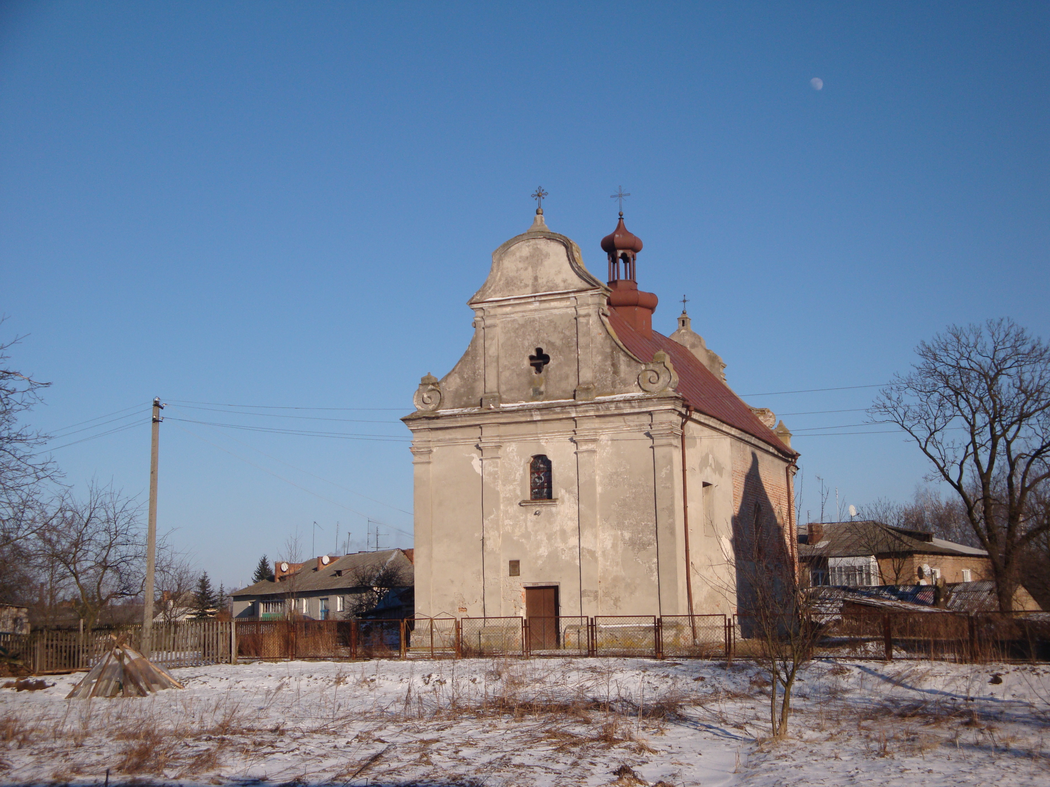 Church of the Holy Trinity in Lyuboml from west side